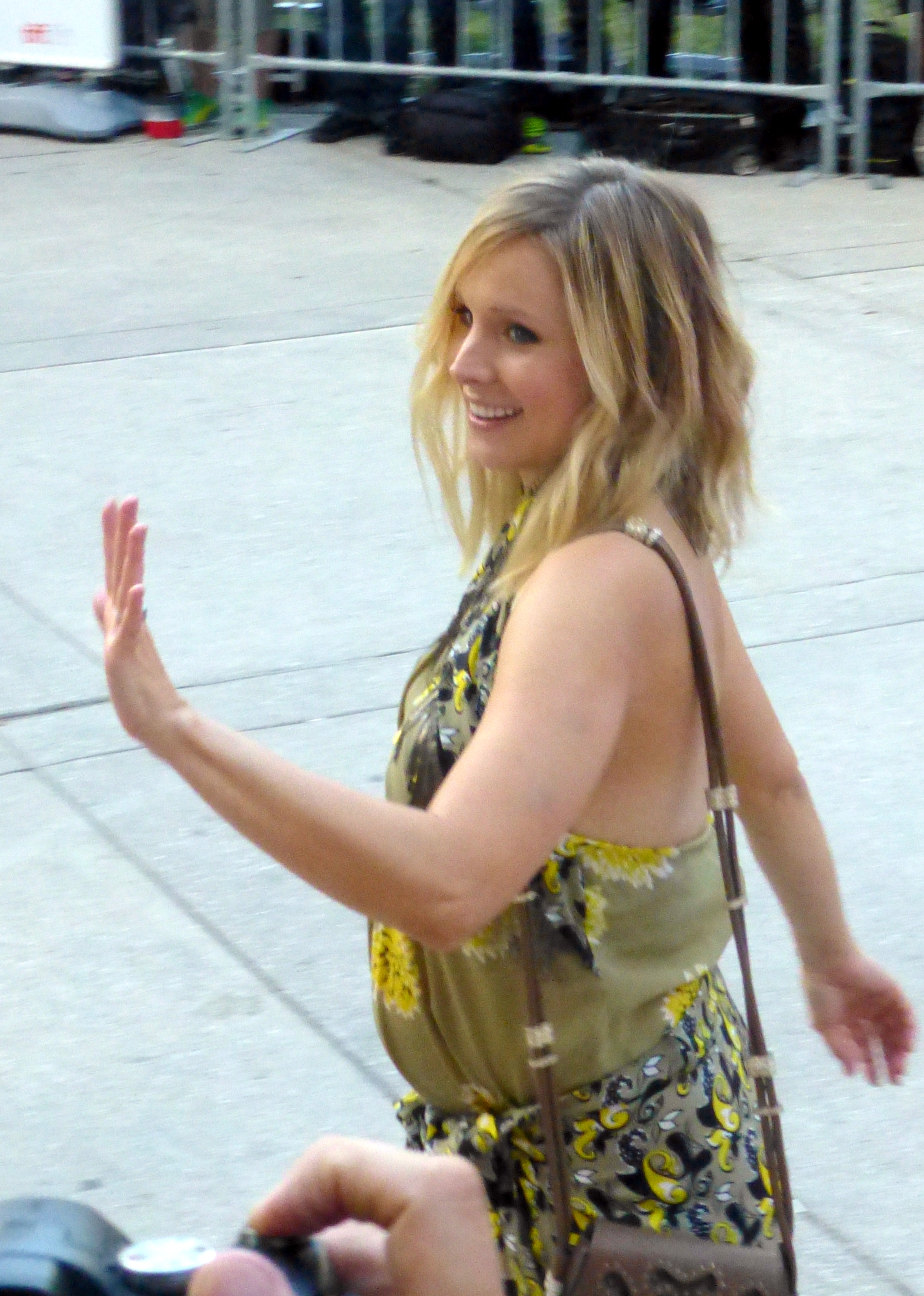 Kristen Bell at the premiere of The Judge, Toronto Film Festival 2014